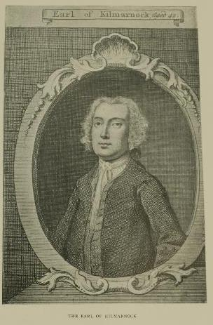 Illustration from PD book, of character playing a role in the "history" of Freemasonry